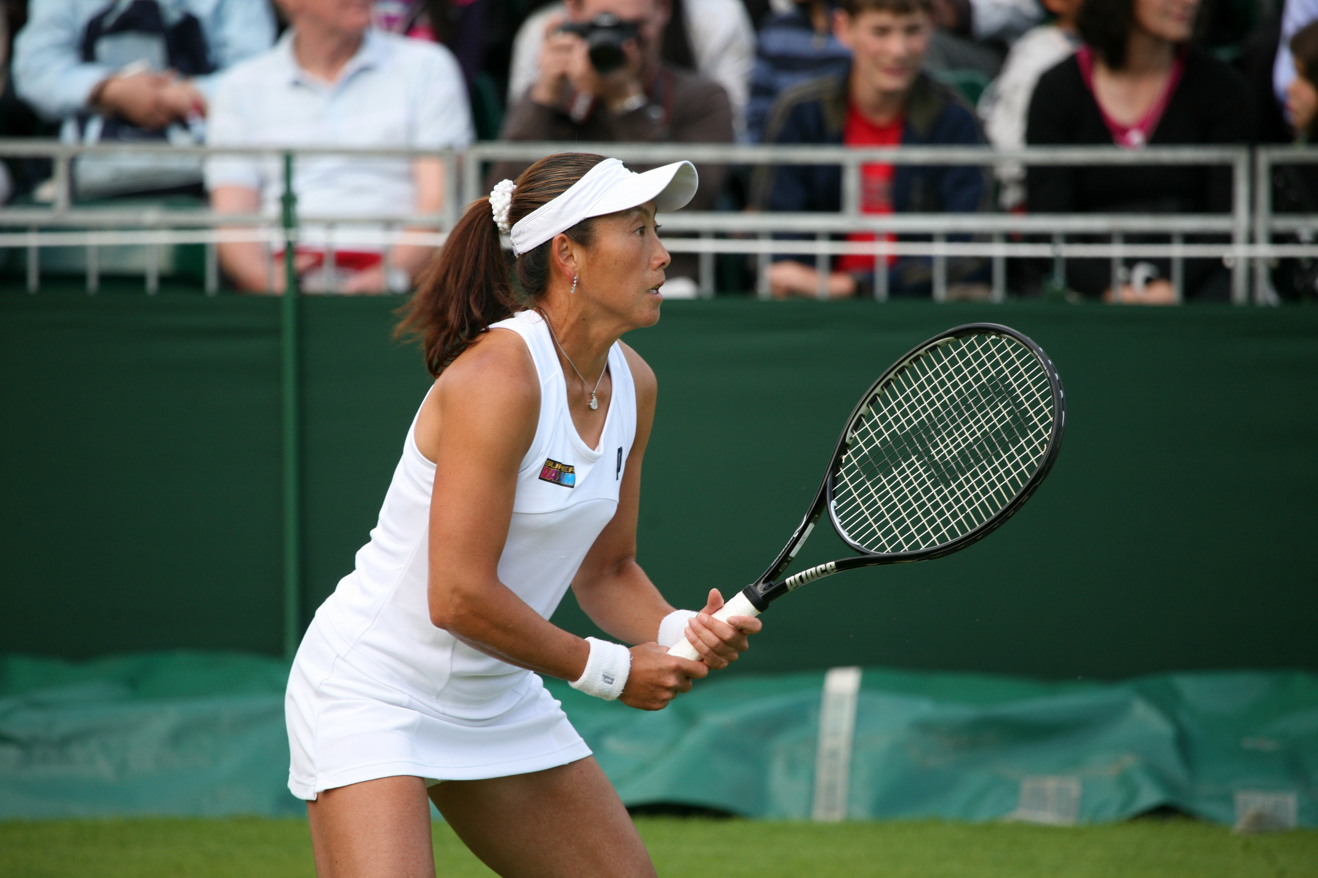 Ai Sugiyama against Patty Schnyder in the 2009 Wimbledon Championships first round